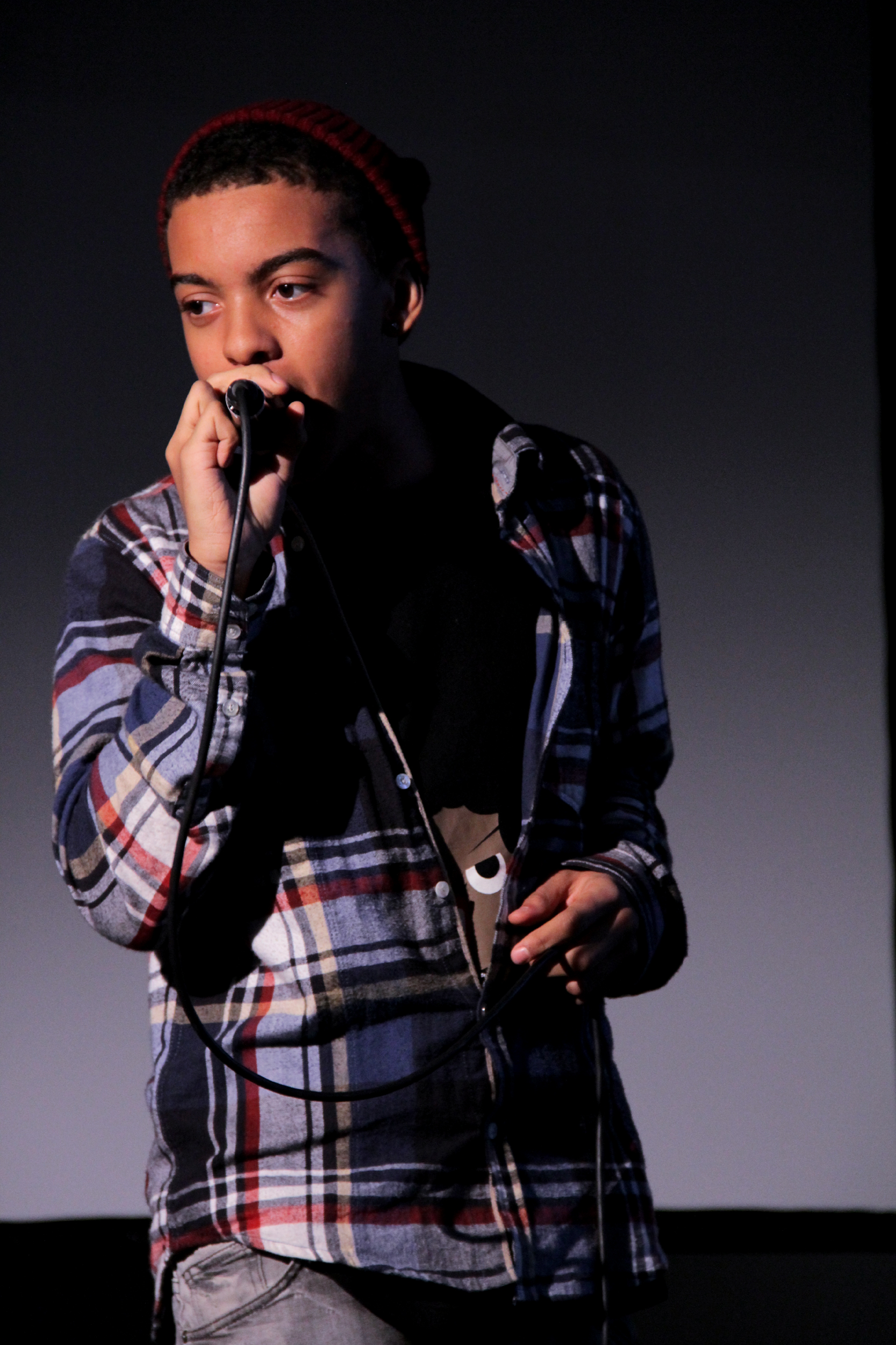 Finnish rapper Noah Kin performing at Sello library in Espoo, Finland.